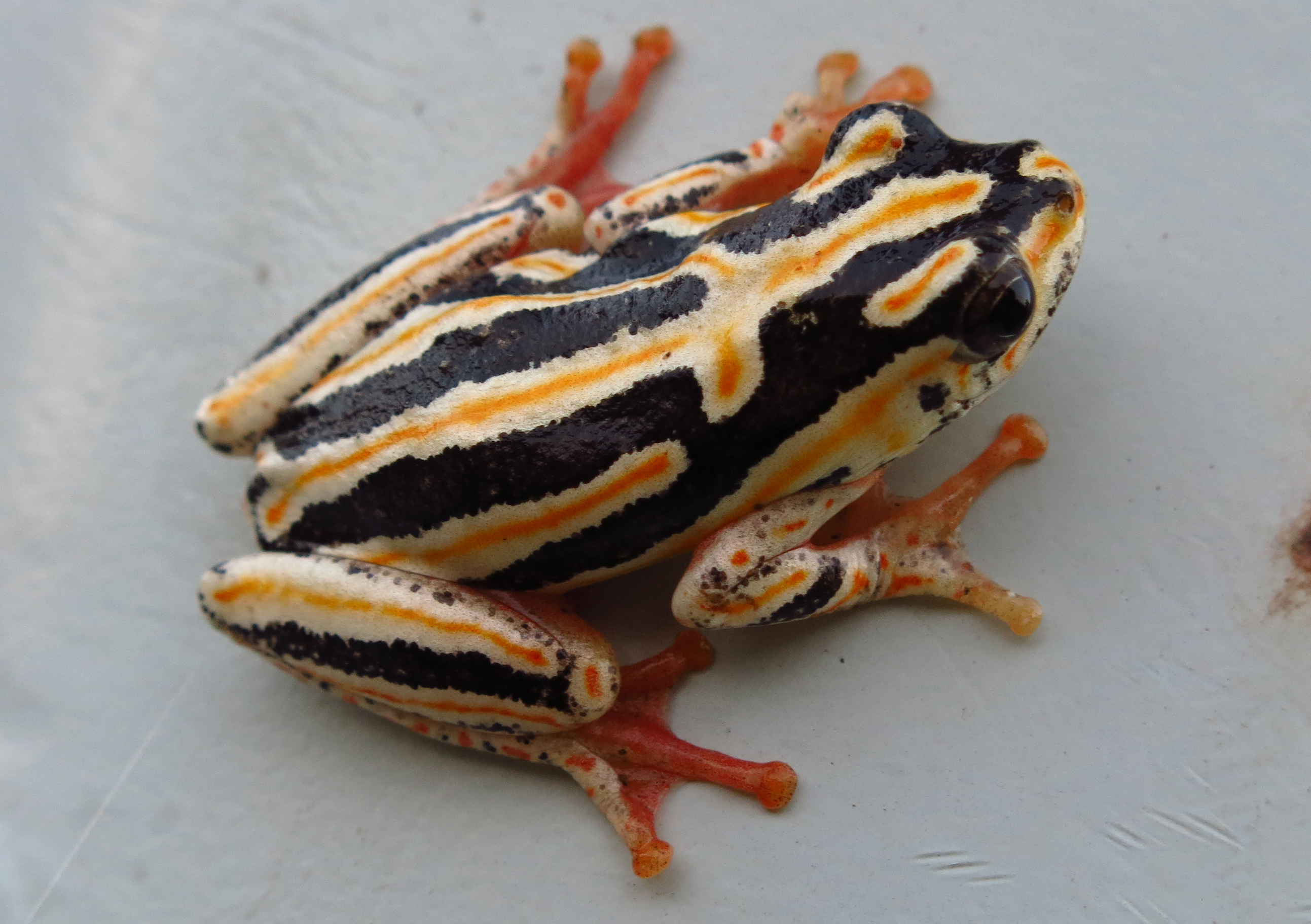 Hyperolius marmoratus, Limpopo, South Africa